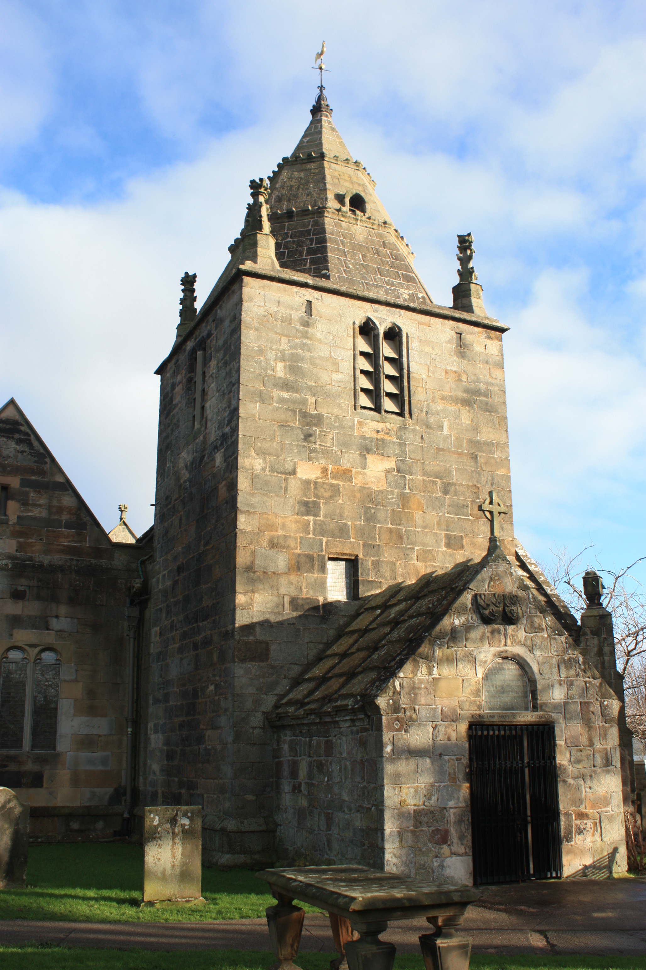 Corstorphine Church tower, Edinburgh